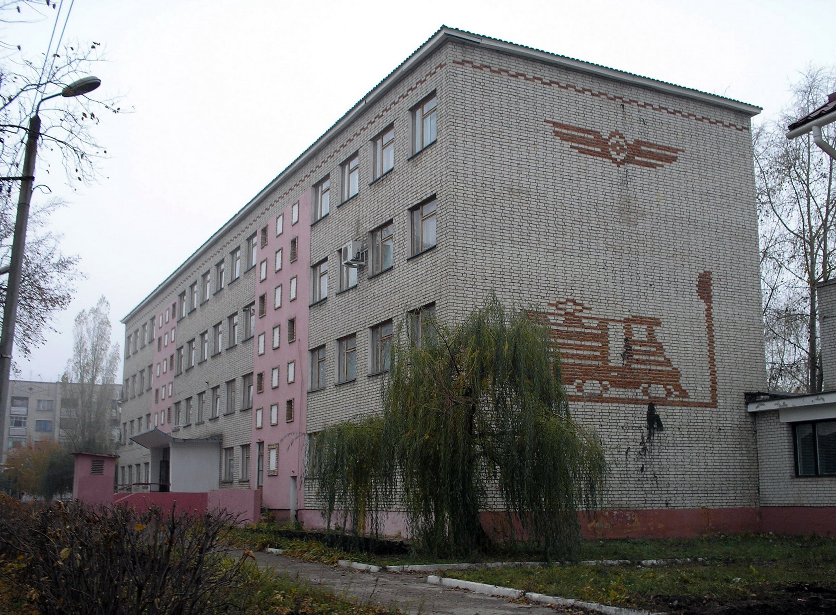 Rtishchevsky technical school of a railway transportation